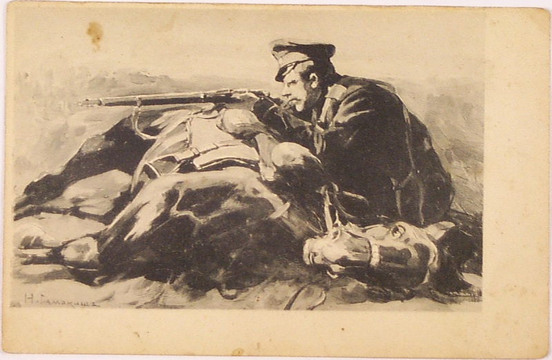 Nikolai Samokish (signature). Russian Empire WWI postcard.